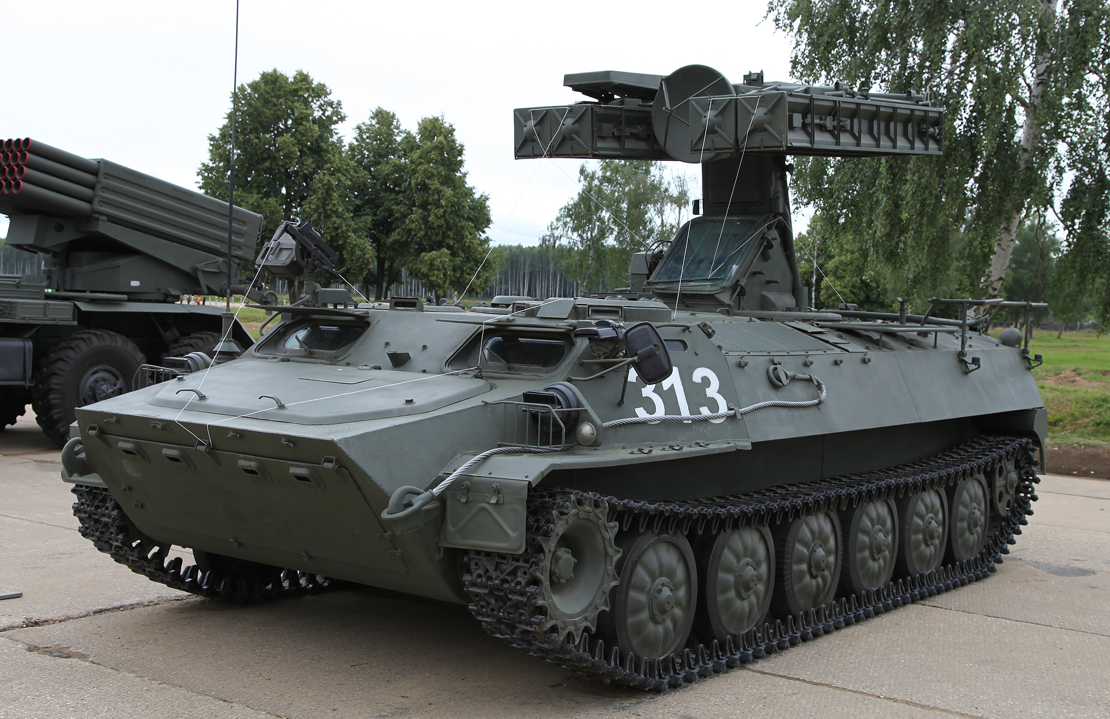 9A35 combat vehicle 9K35 Strela-10